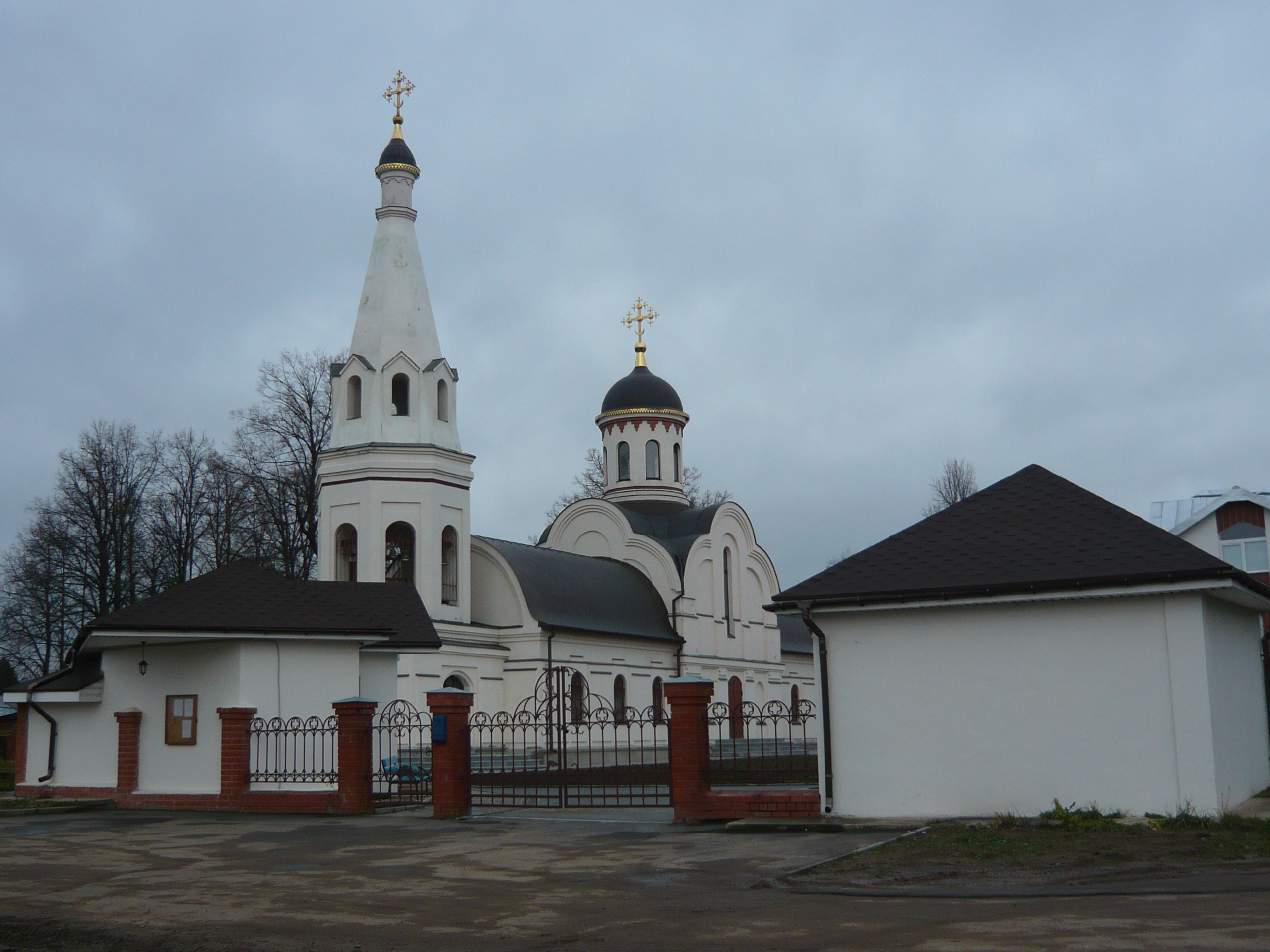 The Tikhvin temple of Russian Orthodox Church in the city of Troitsk of Moscow Region